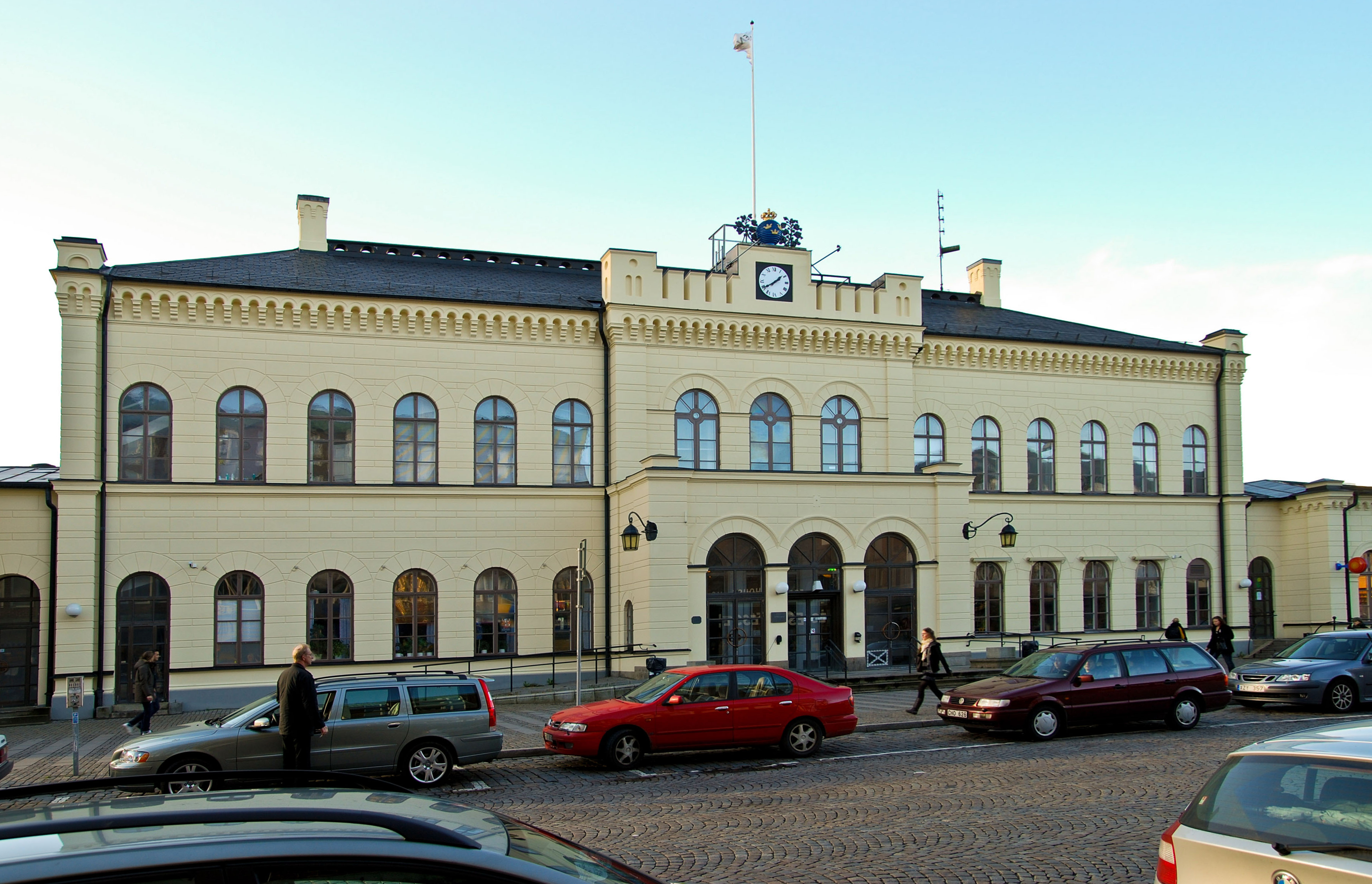 Lund central train station